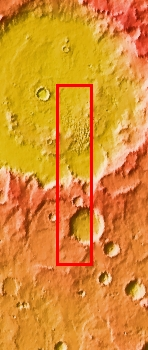 Kaiser Crater context image for themis. Location is 47.4 S and 19.7 E.